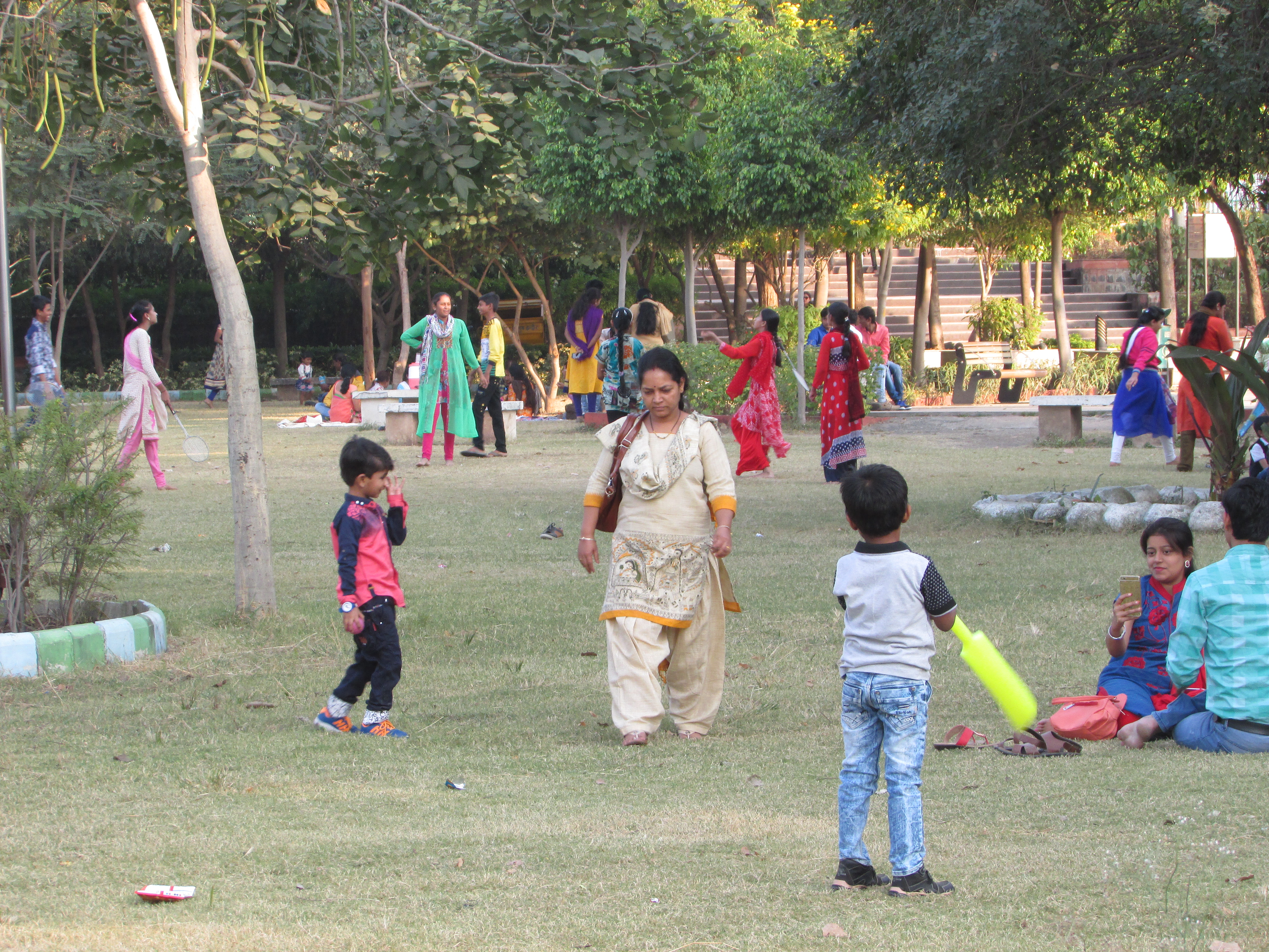 visitors at Park, Indore